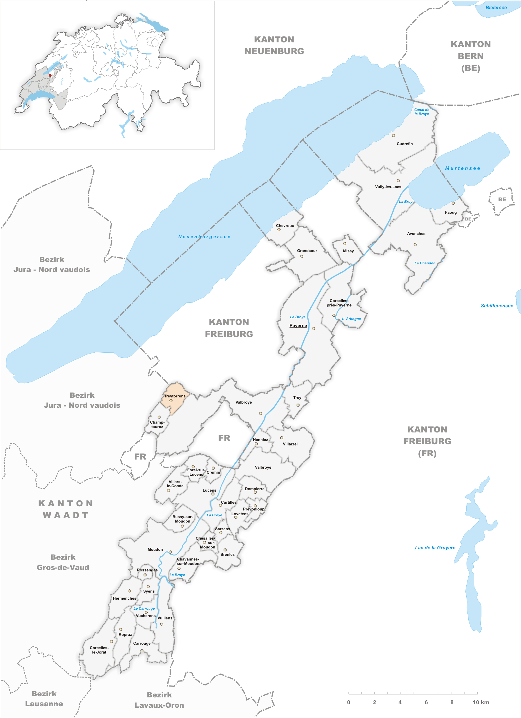 Municipality Treytorrens (Payerne)